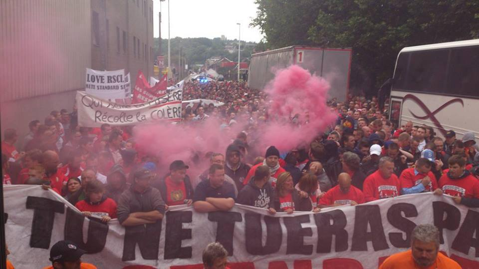 Fans of Standard de Liège